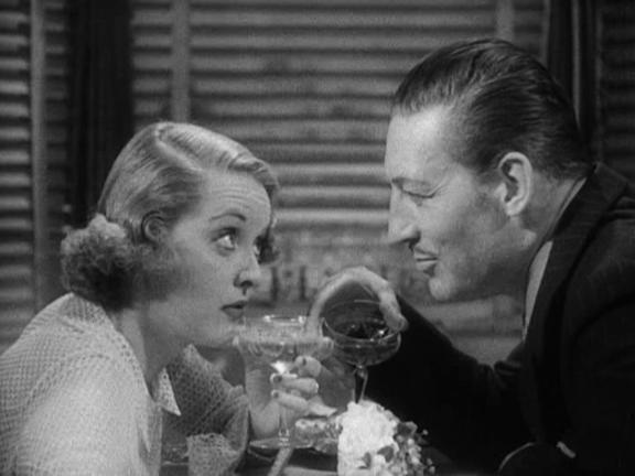 Frame from public domain trailer for Warner Bros. 1936 film Satan Met a Lady showing Bette Davis as Val and Warren William as Ted enjoying cocktails